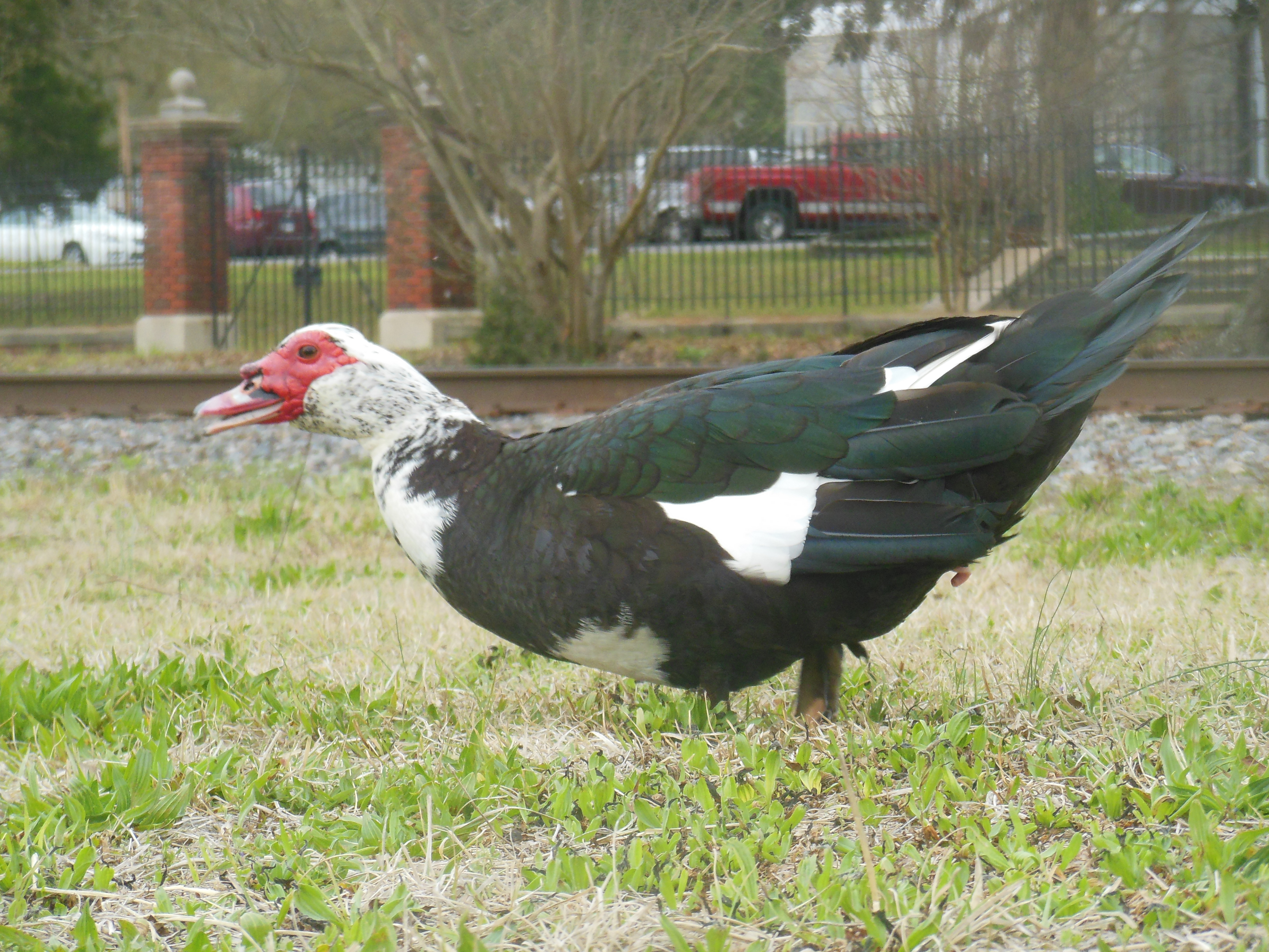 picture of duck